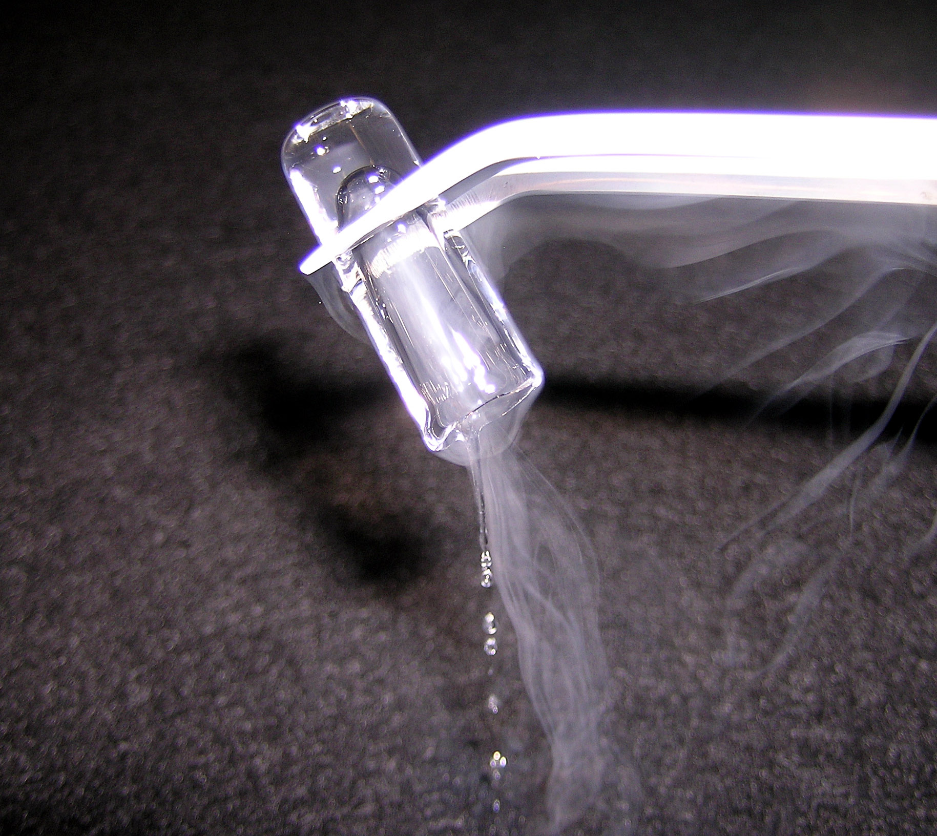 From en wiki: A small (~2 cm long) piece of rapidly melting argon ice (the liquid is flowing off at the bottom) which has been frozen by allowing a slow stream of the gas to flow into a small graduated cylinder which was immersed into a cup of liquid nitrogen. Auto-contrast and unsharp mask applied in photoshop. Image taken by me.